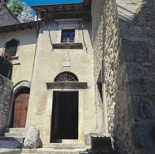 Saint Rita's birthplace at Roccaporena, near Spoleto